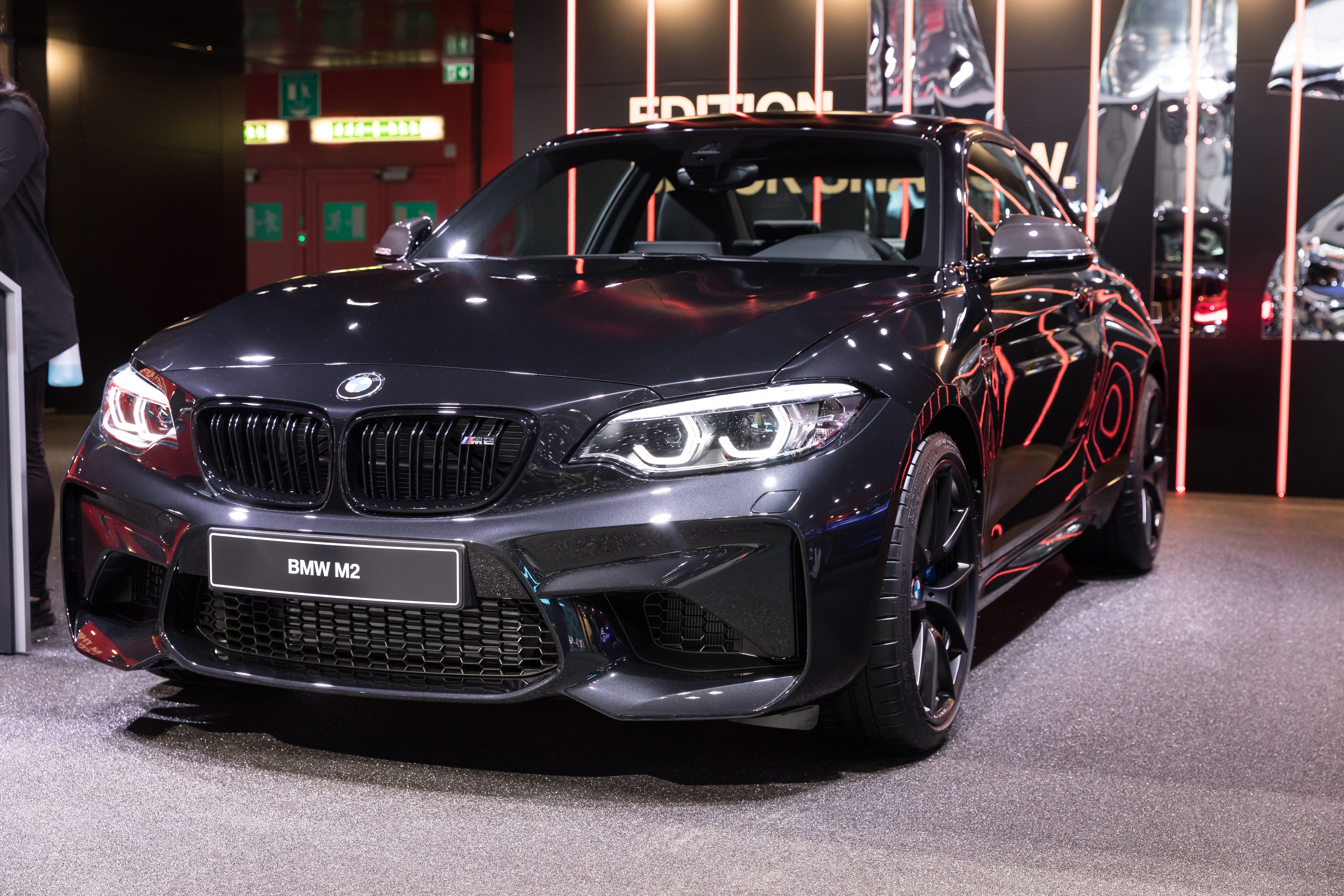 BMW M2 at Geneva International Motor Show 2018